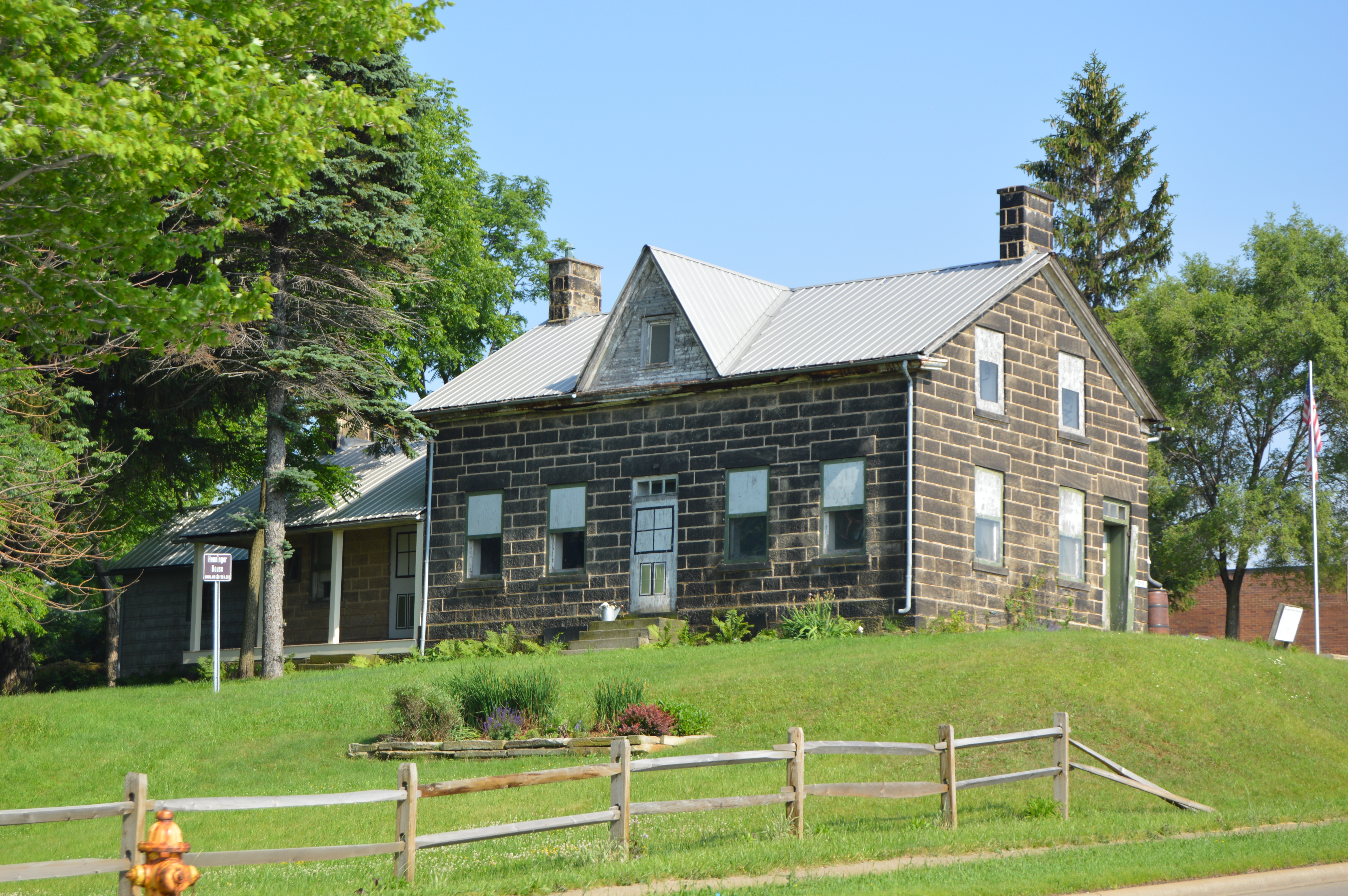 Front and western end of the Phillip Henninger House, located at 5757 Broadview Road (State Route 176) in Parma, Ohio, United States. Built in 1842, it is listed on the National Register of Historic Places.